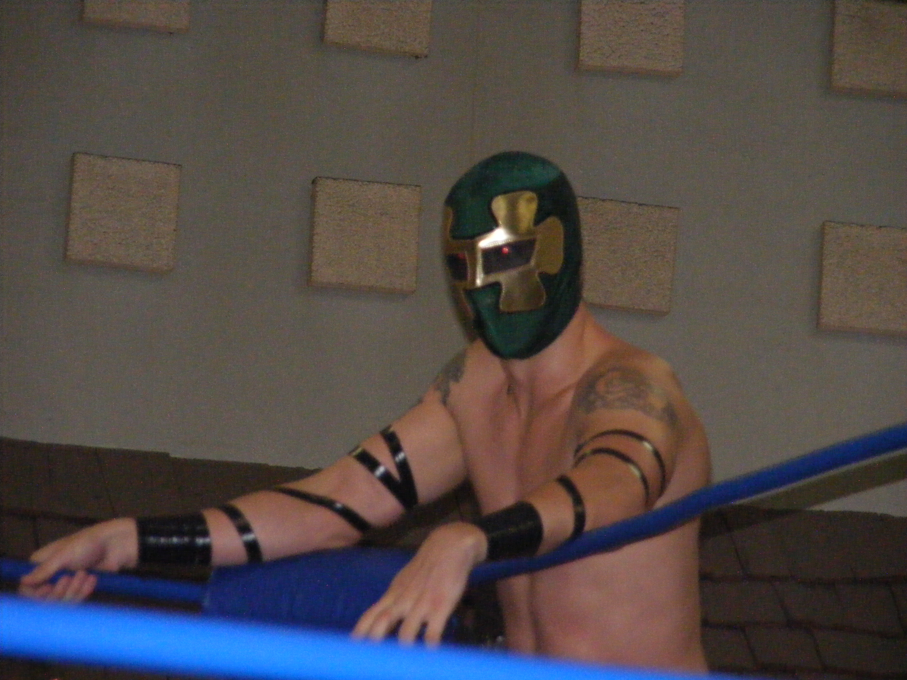 Professional wrestler Jigsaw at a Chikara show